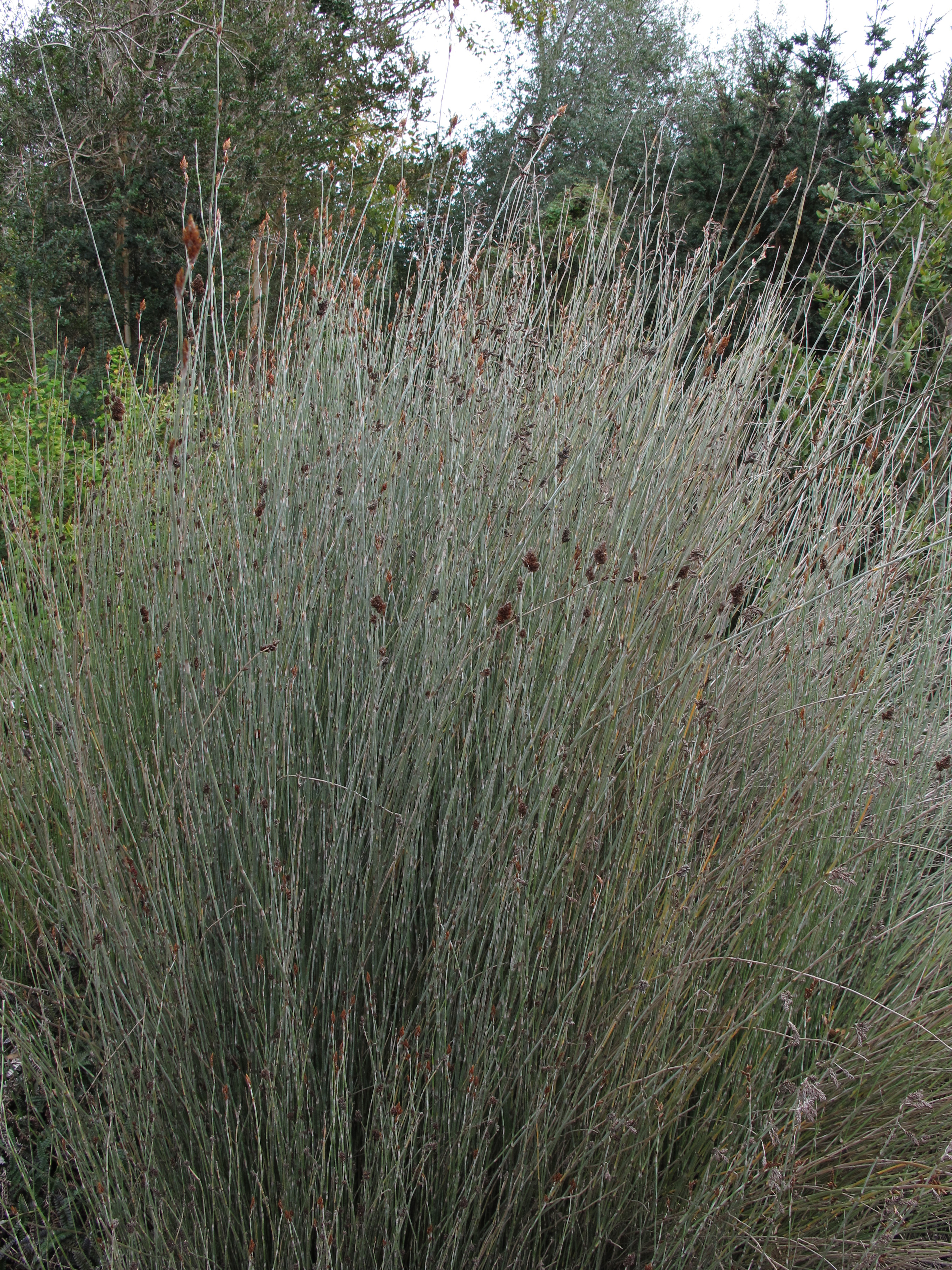 Apodasmia chilensis, University of California Botanical Garden at Berkeley, California, USA.